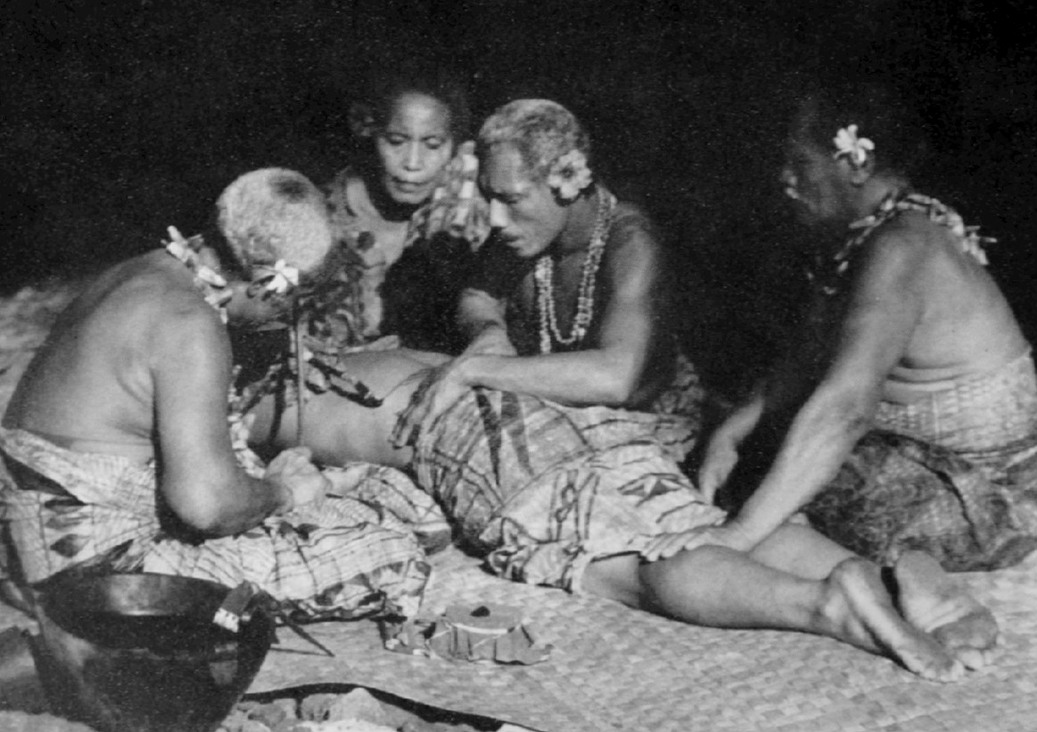 Photo of tatooing from the 1926 film Moana. A renewal search was done at using the author's name. There were no listings for Frances Hubbard Flarety. There's no evidence of renewal for this book.